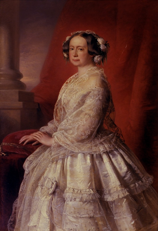 Portrait of Maria Pavlovna, Grand Duchess of Saxe-Weimar-Eisenach; from a cycle of paintings in the Castle of Weimar, oil on canvas, Stiftung Thüringer Schlösser und Gärten